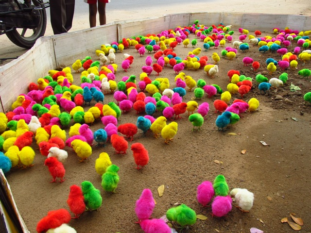 Colour chicken for sale.